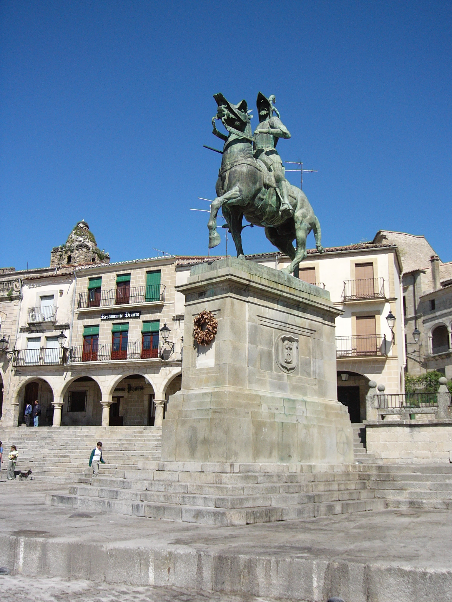 Description: Statue of Francisco Pizarro City : Trujillo Country : Spain Photographer: © Manuel González Olaechea y Franco Shot date : April, 13th., 2004 Image:Francisco Pizarro2.JPG appears to be a sharpened version of this same image. Image:Estatua de Francisco Pizarro en Trujillo.jpg appears to be a lower-resolution version of this same image.